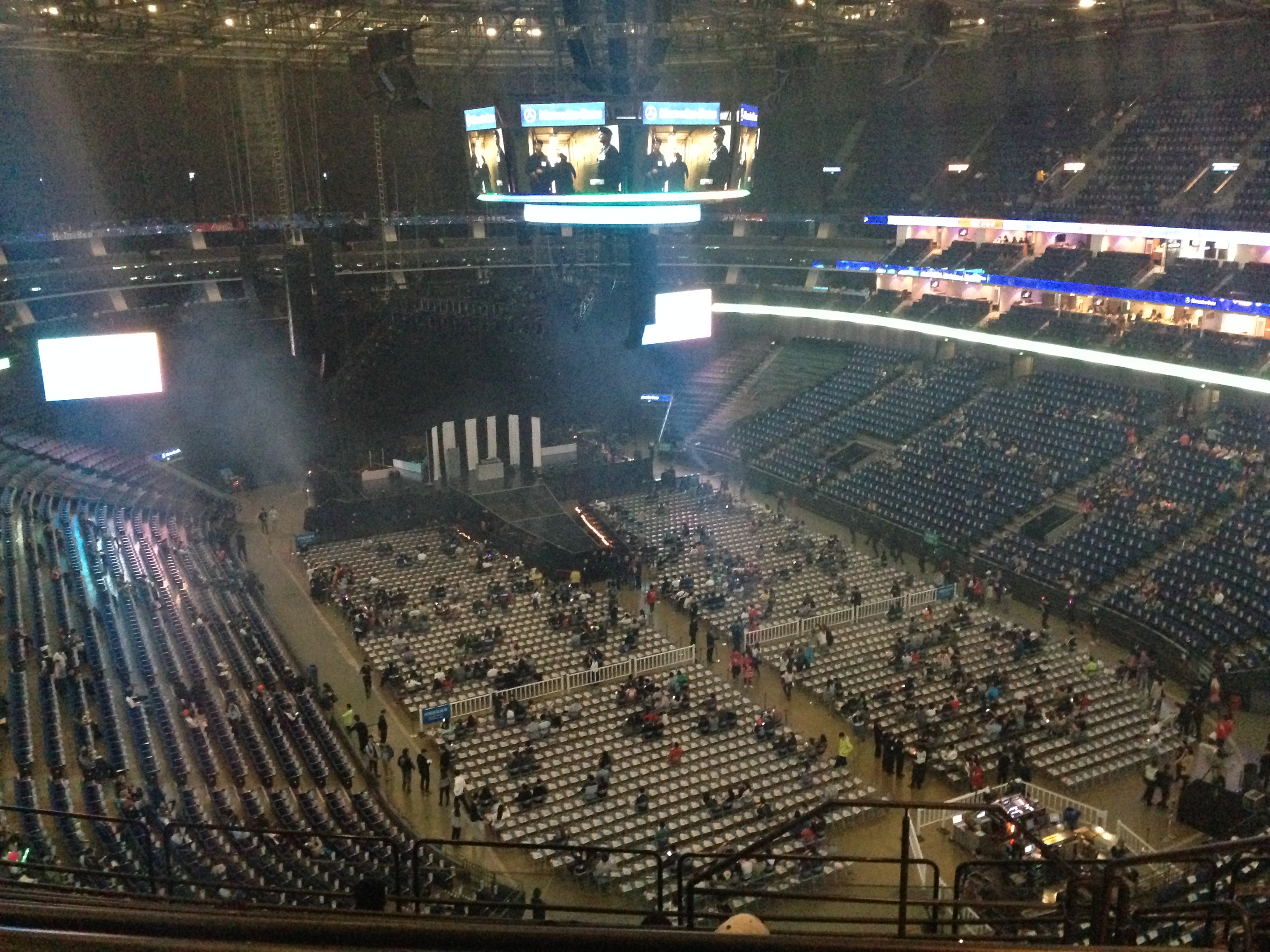 Interior of Mercedes-Benz Arena, Shanghai. (Katy Perry's Prismatic Tour)